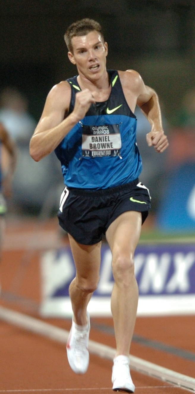 Army National Guard Captain Daniel "Dan" Browne Competing at the 2008 Olympic Trials